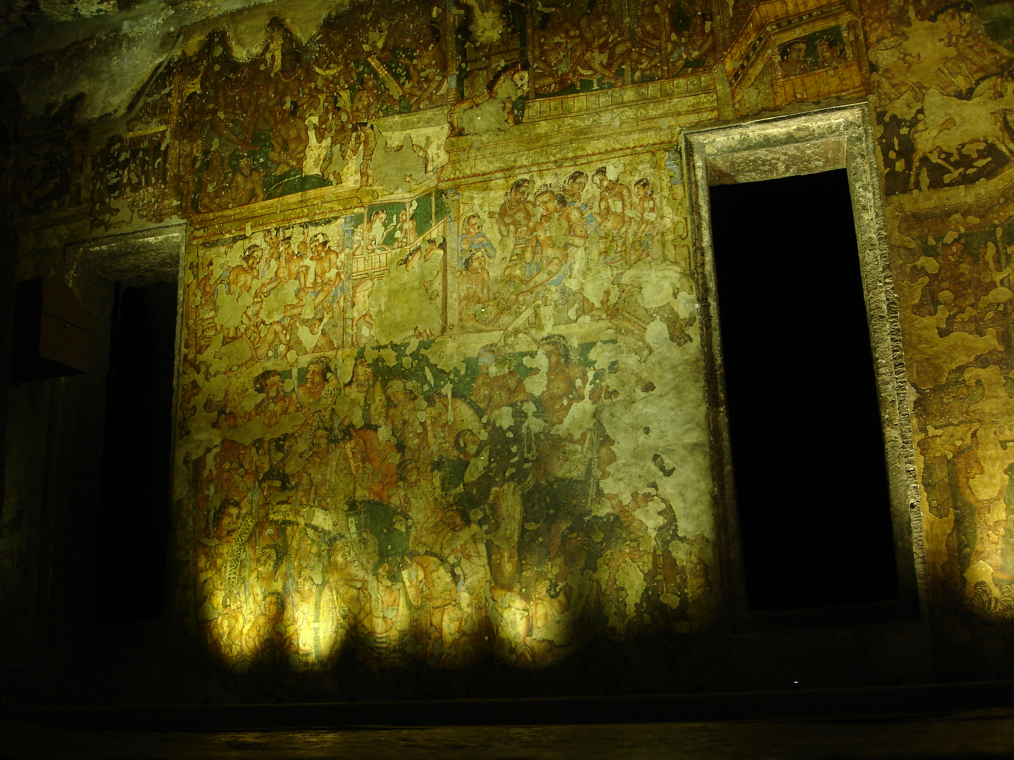 thumb|Fresco.